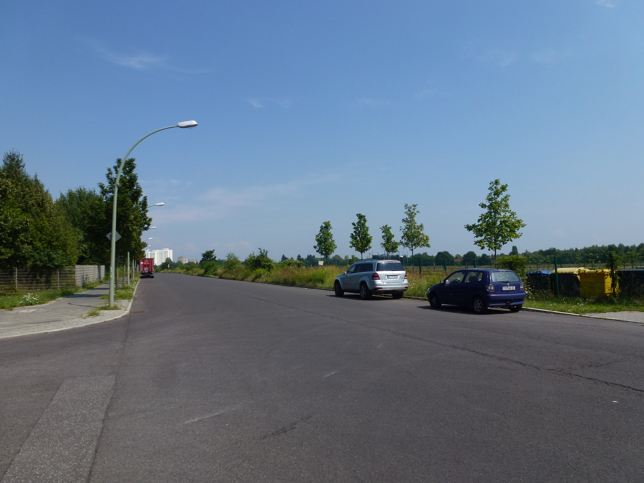 Berlin-Buckow Gerlinger Straße